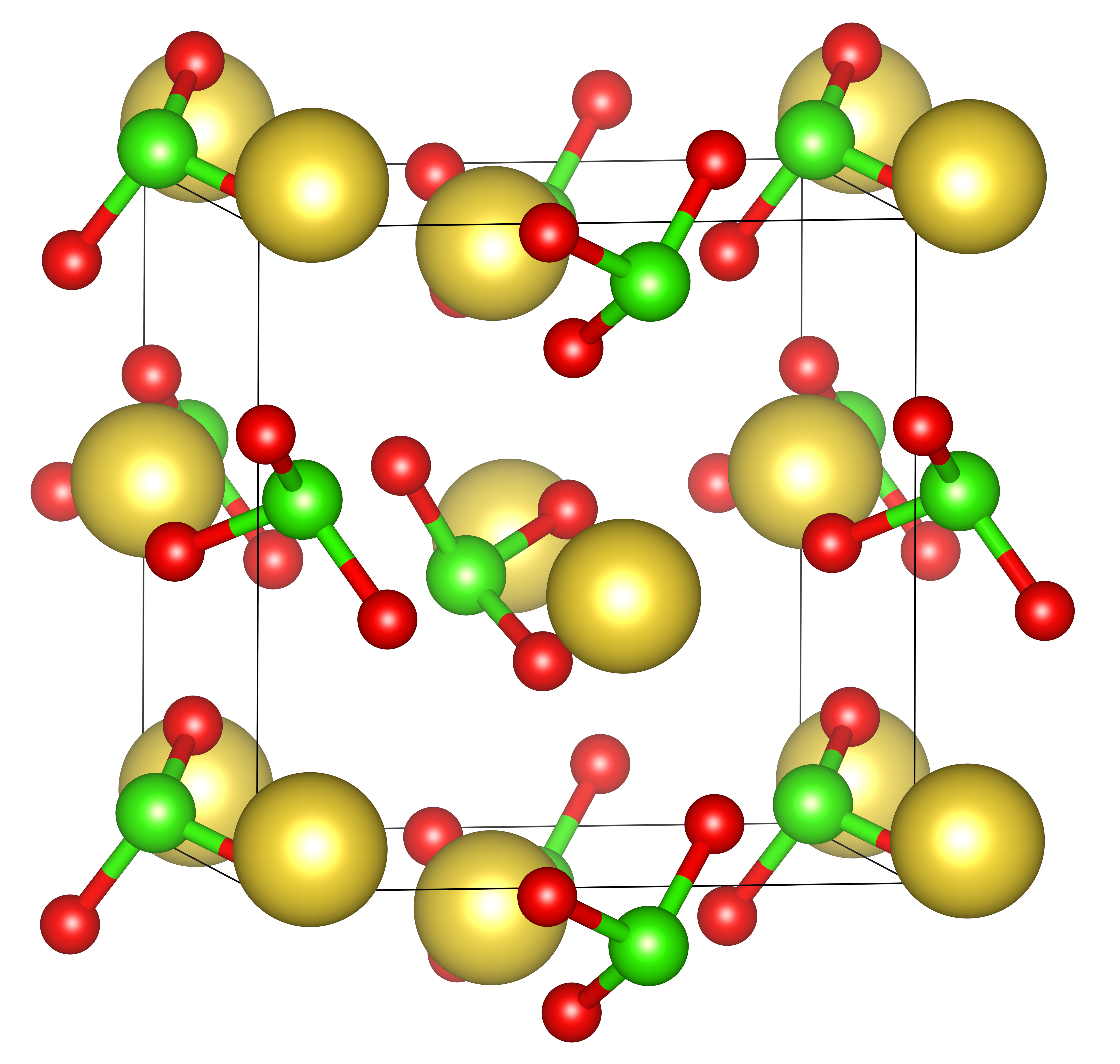 Unit cell of sodium chlorate (NaCl3). Created with VESTA. According to the paper, the crystal structure is moreover valid for sodium bromate. Source of crystal structure: S. C. Abrahams, J. L. Bernstein (1977). "Remeasurement of Optically Active NaClO3 and NaBrO3". Acta Crystallographica Section B B33: 3601–3604.